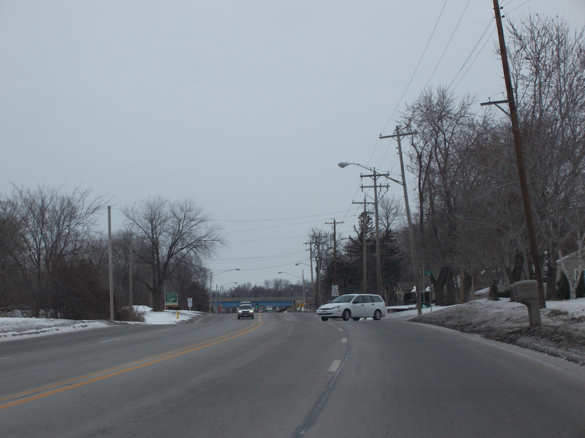 Looking north in Allouez, Wisconsin, USA. Taken February 11, 2007 by myself.